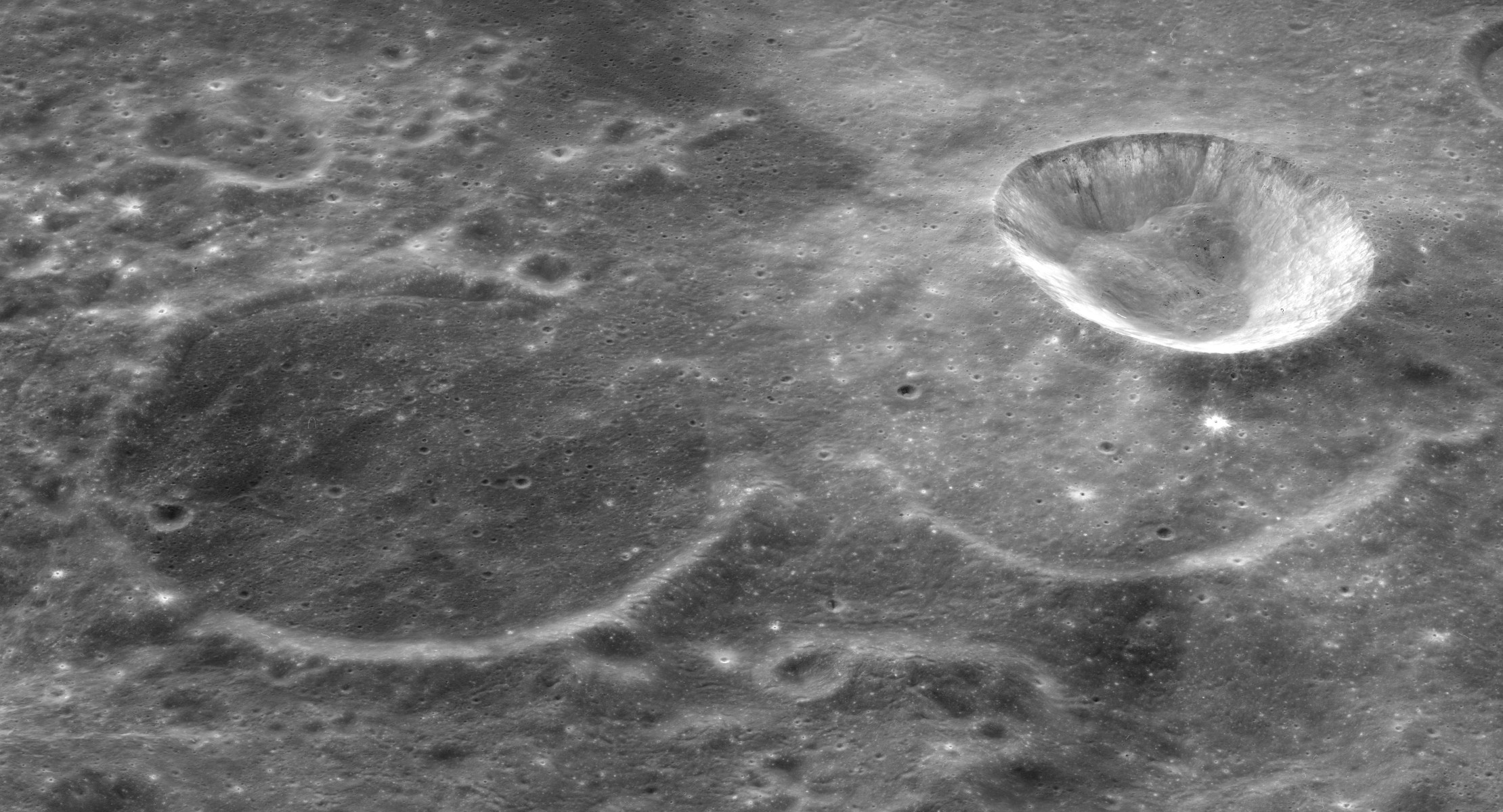 Oblique view of Hume crater (left), with Hume A and Z (right), facing west, on the moon. Taken by Apollo 17 panoramic camera.